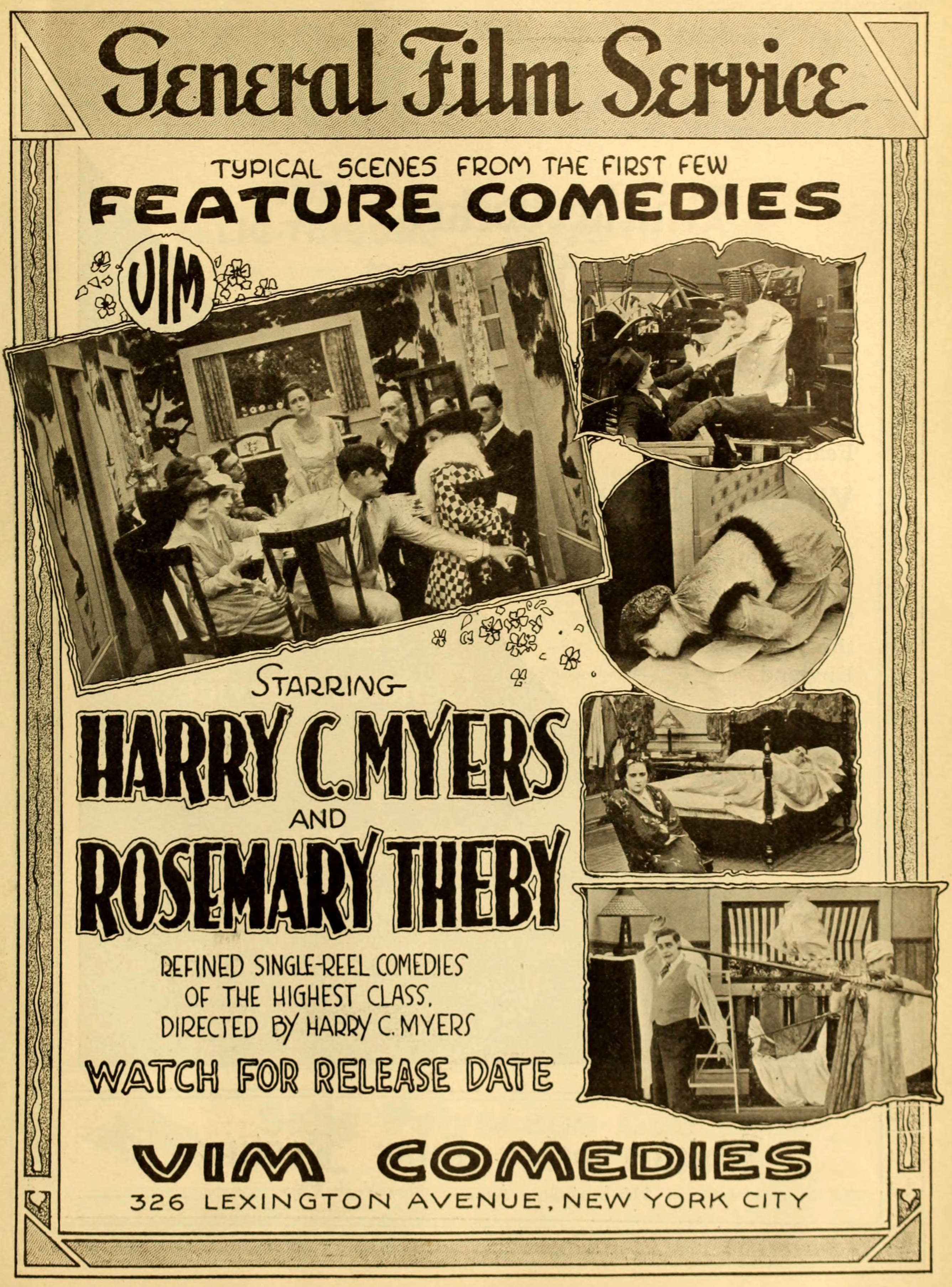 Advertisement in The Moving Picture World